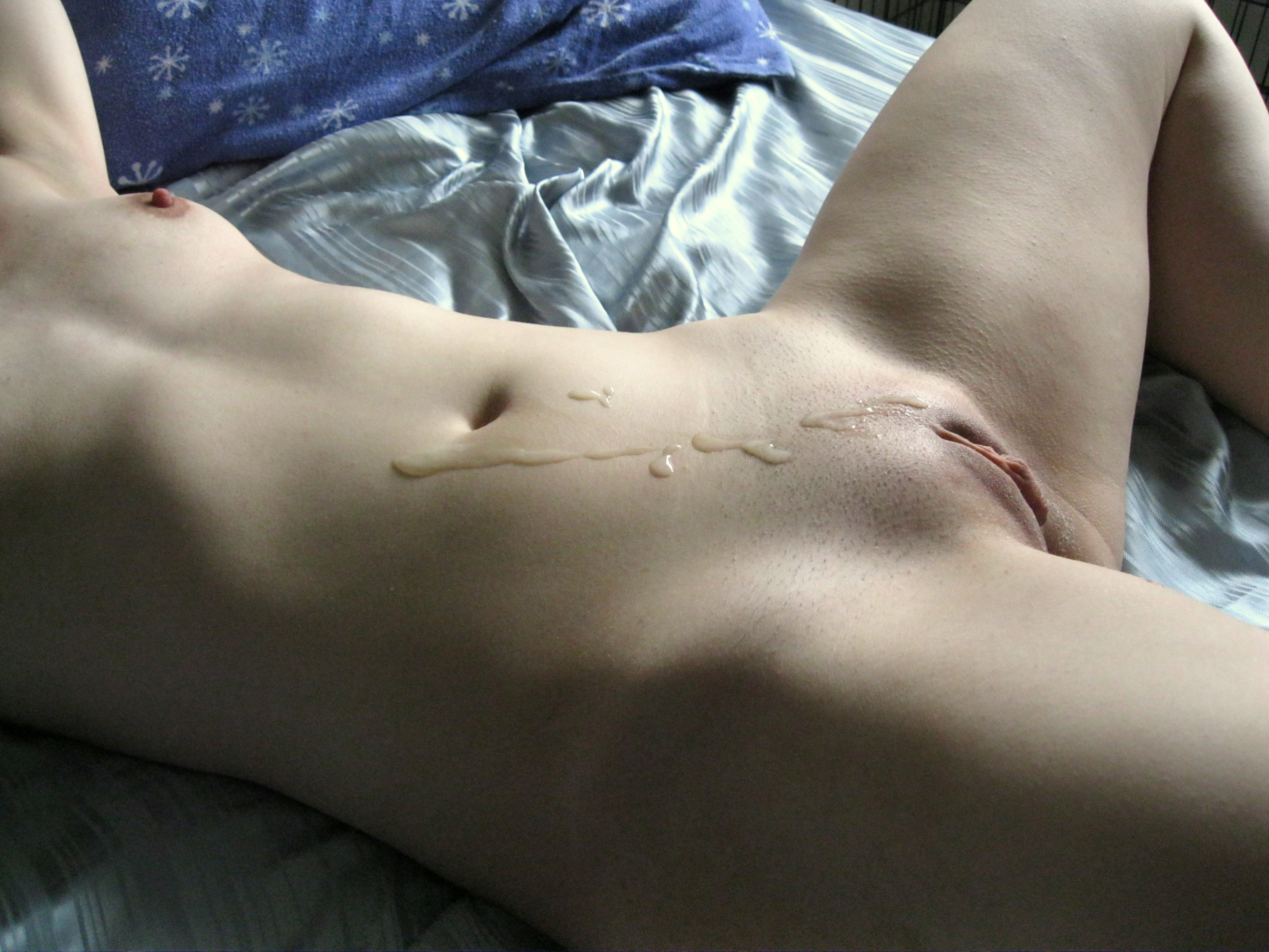 Semen on female belly